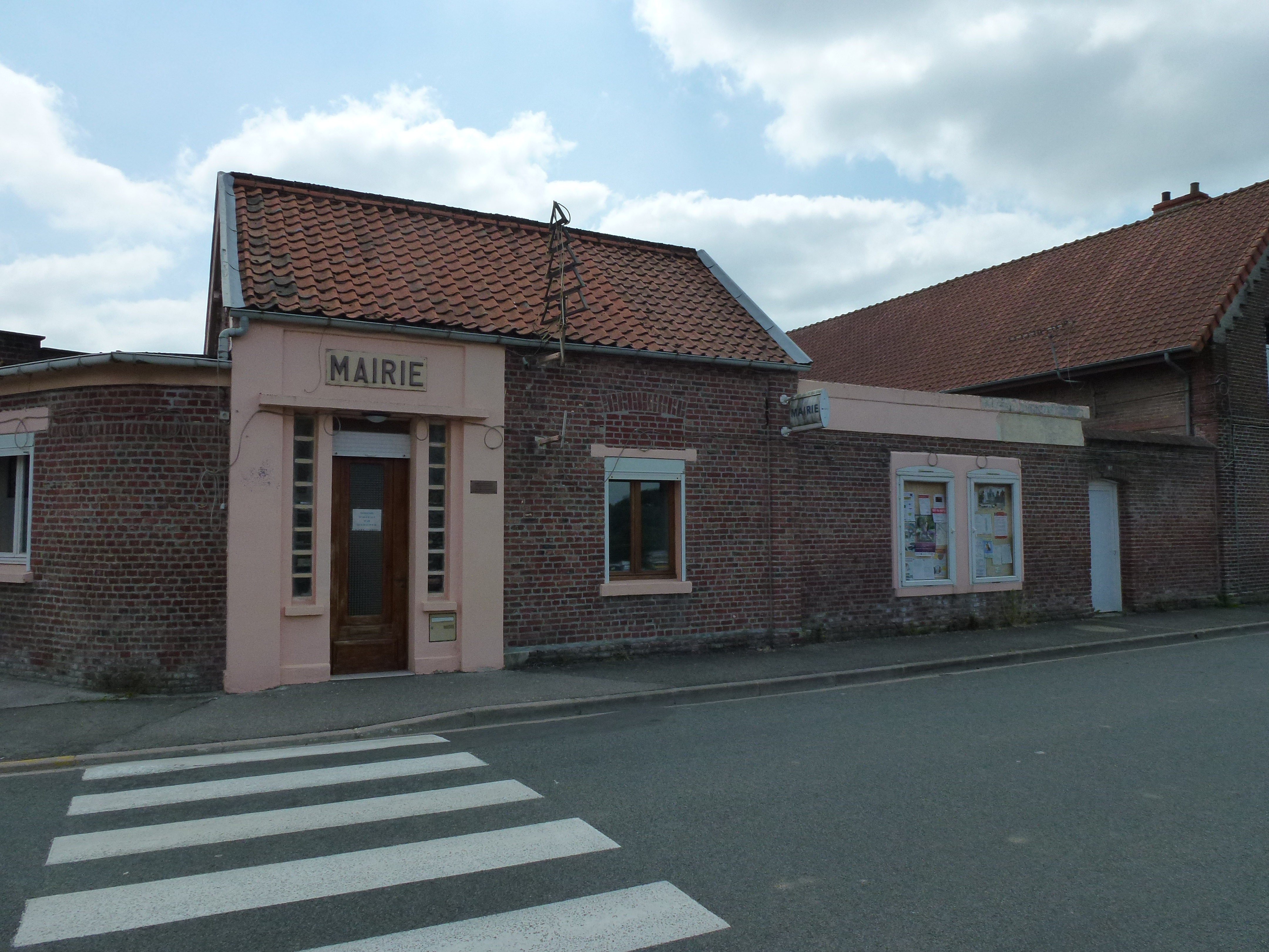 Guarbecque (Pas-de-Calais) mairie